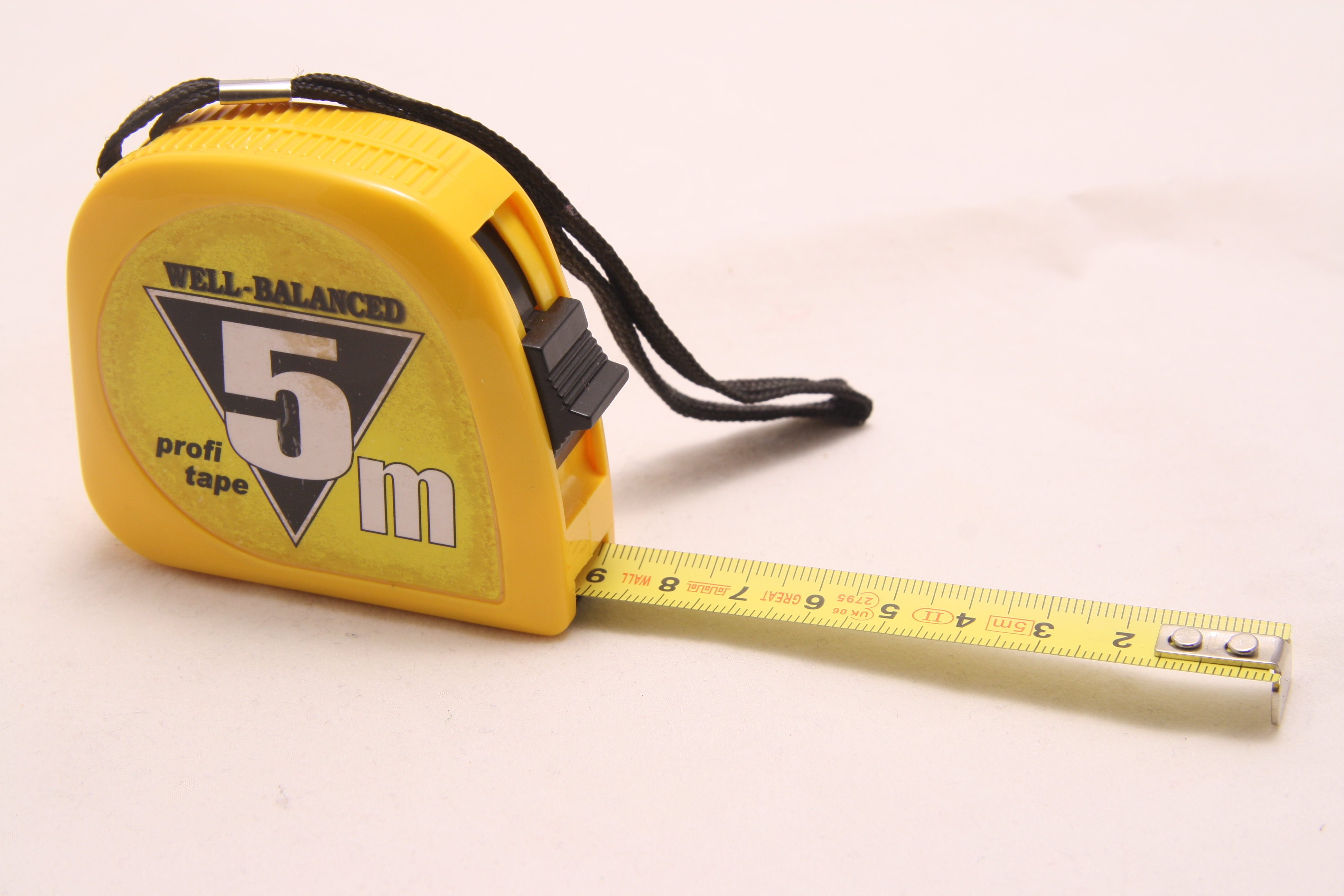 Opened rollable meter.